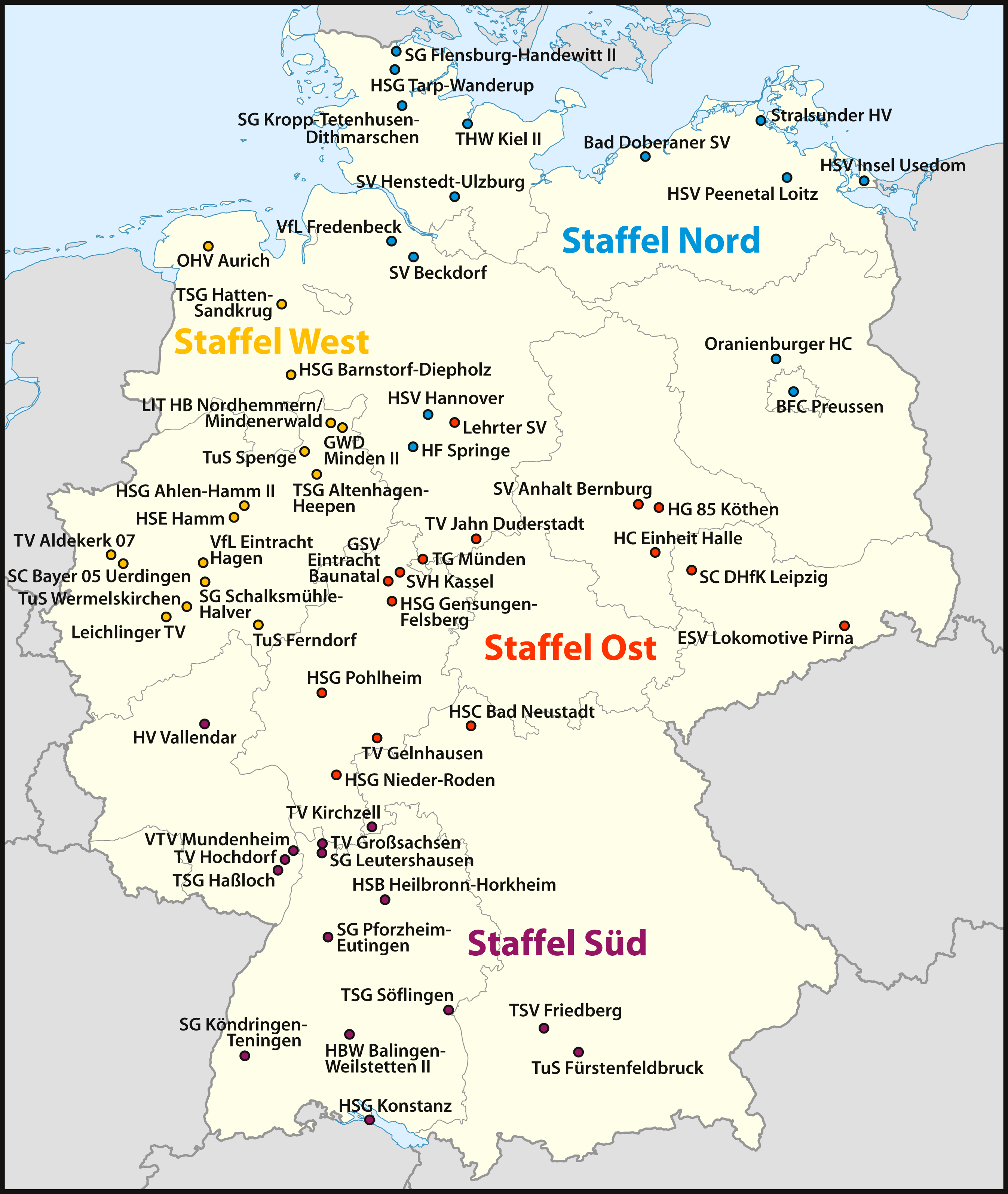 Map of the members of 3. Handball Ligue 2010/11